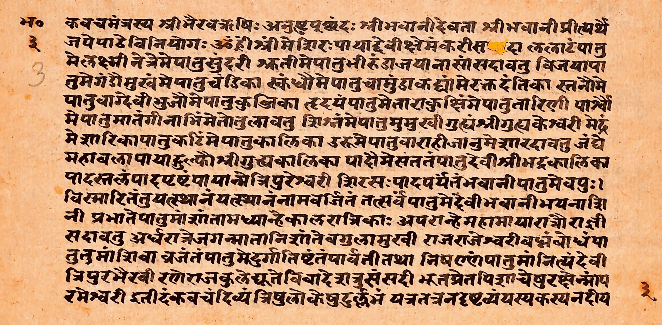 This is a page from the Varaha Purana manuscript. Language: Sanskrit Script: Devenagari This manuscript was acquired in the 19th-century, and was produced in or before the acquisition. The photo above is of a 2D artwork from the text that was itself authored more than 500 years ago. Therefore Wikimedia Commons PD-Art licensing guidelines apply. Any rights I have as a photographer is herewith donated to wikimedia commons under CC 4.0 license.